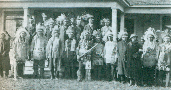 Laura Cornelius Kellogg (third from right) and Oneida Chiefs, 1925 Other information No. This work is in the public domain because it was published in the United States between 1923 and 1963 and although there may or may not have been a copyright notice, the copyright was not renewed. Unless its author has been dead for the required period, it is copyrighted in the countries or areas that do not apply the rule of the shorter term for US works, such as Canada (50 pma), Mainland China (50 pma, not Hong Kong or Macao), Germany (70 pma), Mexico (100 pma), Switzerland (70 pma), and other countries with individual treaties. See Commons:Hirtle chart for further explanation. Deutsch | English | español | français | italiano | 日本語 | 한국어 | македонски | português | português do Brasil | русский | українська | edit|Template:PD-U